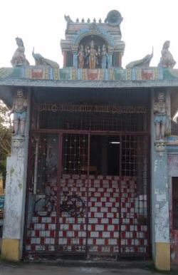 Thanjavurmelavasalsubramaniartemple தஞ்சாவூர் மேலவாசல் சுப்பிரமணியர் கோயில்